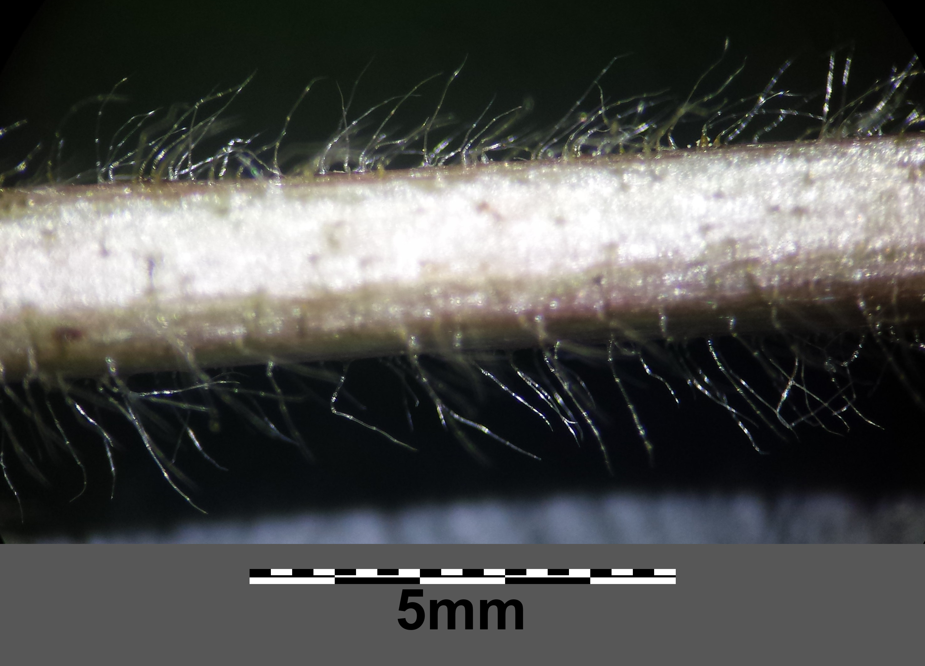 Hirsute stem Taxonym: Inula hirta ss Fischer et al. EfÖLS 2008 ISBN 978-3-85474-187-9 Location: semi-dry grasslands and wine yards to the north of Oberthern, municipality Heldenberg, district Hollabrunn, Lower Austria - ca. 300 m ü. A. Habitat: border of a shrubbery